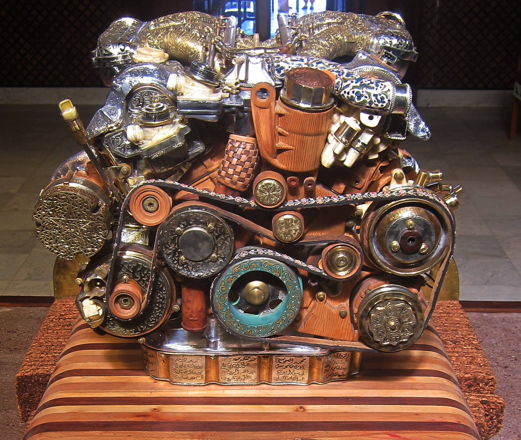 Eric van Hove's V12 Laraki, 2013 53 materials including: Middle Atlas white cedar wood, high Atlas red cedar wood, walnut wood, lemon wood, orange wood, ebony wood of Macassar, mahogany wood, Thuya wood, Moroccan beech wood, pink apricot wood, mother-of-pearl, yellow copper, nickel plated copper, red copper, forged iron, recycled aluminum, nickel silver, silver, tin, cow bone, goat bone, malachite of Midelt, agate, green onyx, tigers eye stone, Taroudant stone, sand stone, red marble of Agadir, black marble of Ouarzazate, white marble of Béni Mellal, pink granite of Tafraoute, goatskin, cowskin, lambskin, resin, cow horn, rams horn, ammonite fossils of the Paleozoic from Erfoud, Ourika clay, geometric terra cotta with vitreous enamel (zellige), green enamel of Tamgrout, paint, cotton, argan oil, cork, henna, rumex.